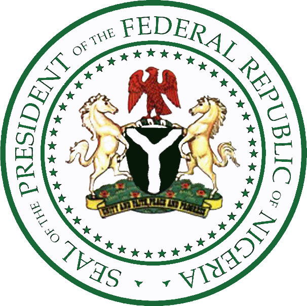 Seal of the President of Nigeria Category:National symbols of Nigeria